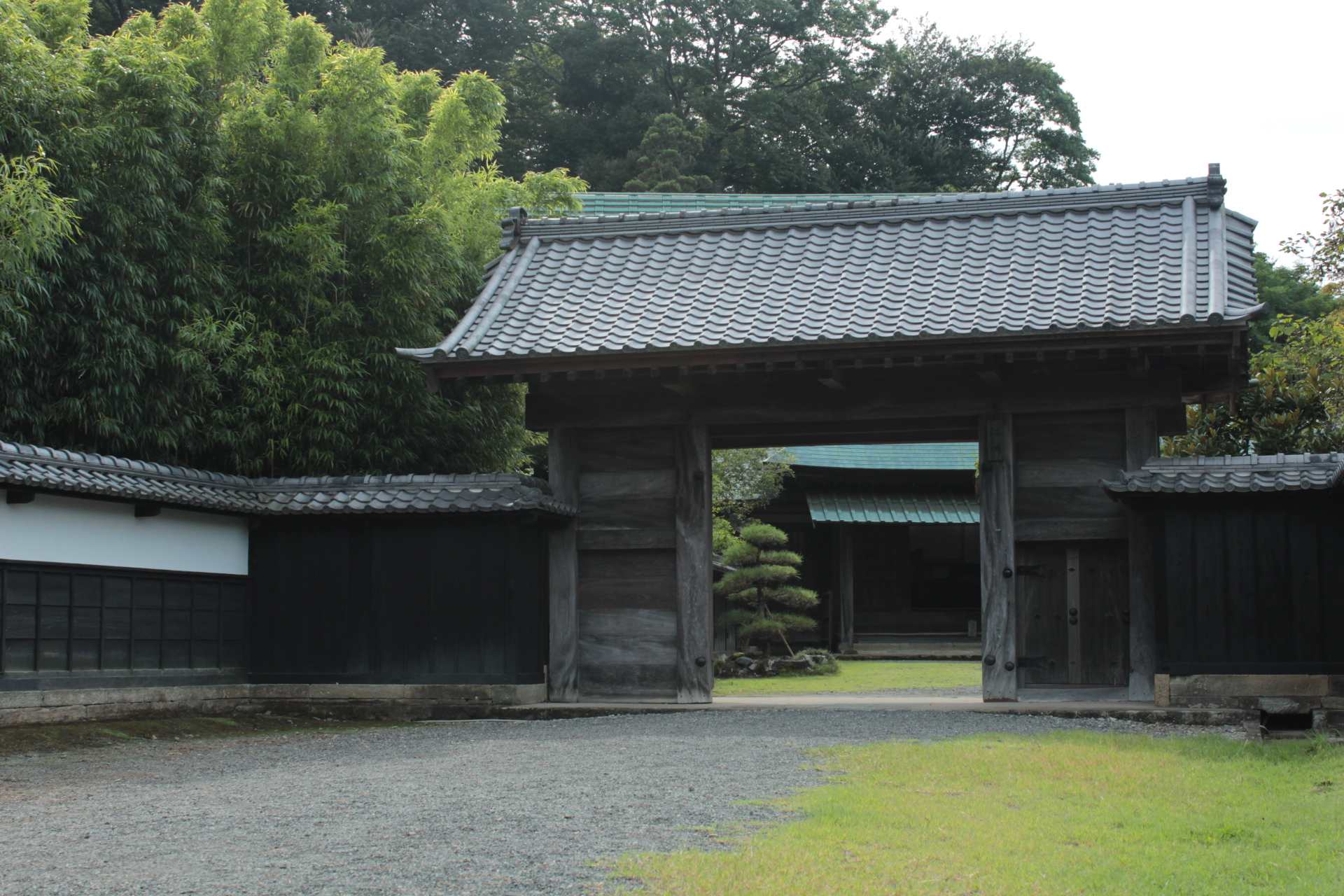 Gate of Egawa residence in Izunokuni, Shizuoka Prefecture, Japan.